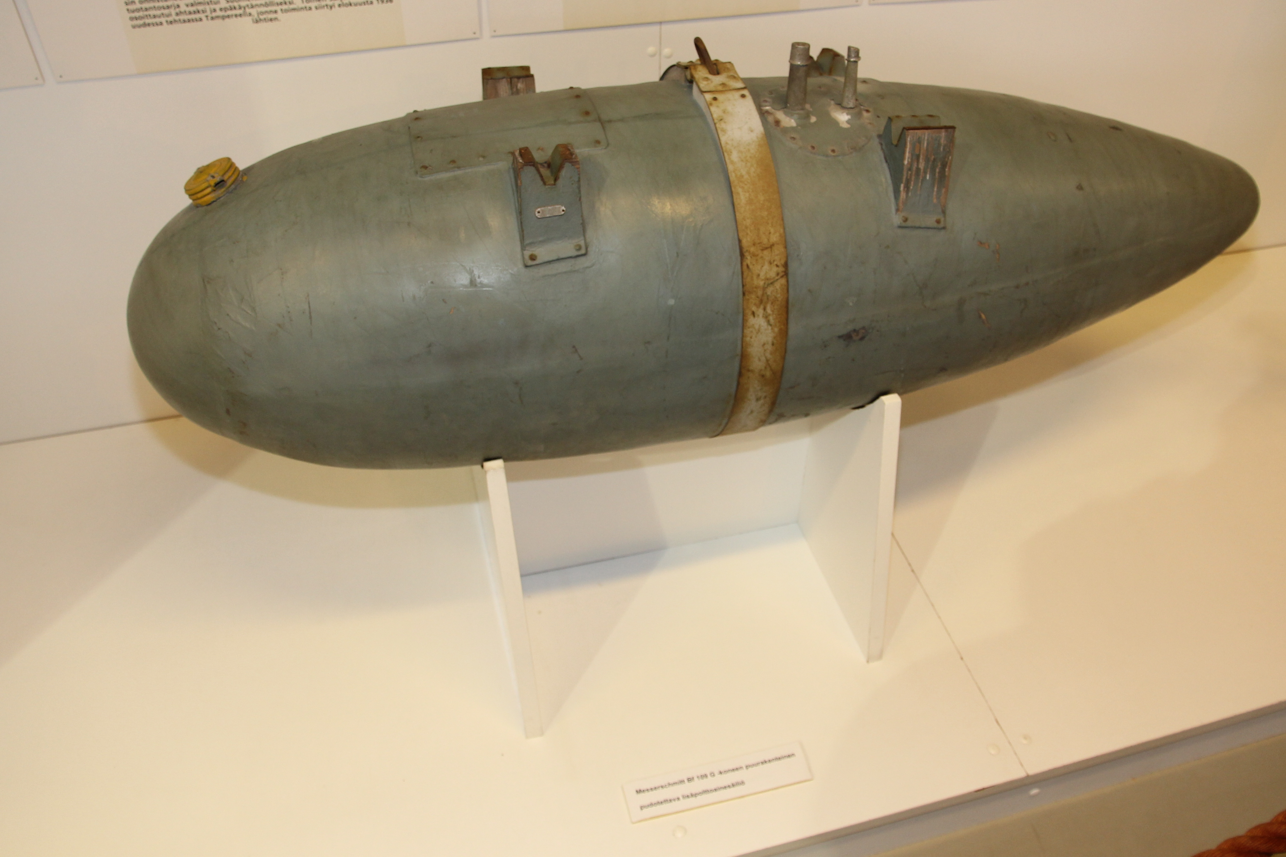 External jettisonable fuel tank from Messerschmitt Bf 109 G fighter in the Aviation Museum of Central Finland.